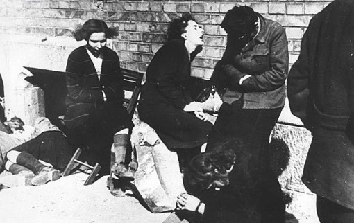 Polish women from Warsaw's district Wola expelled from their homes by German troops during the Warsaw Uprising. Photo taken in transit camp no 121 (Durchgangslager 121) in Pruszków.